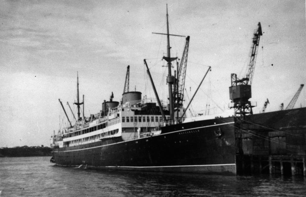 Wanganella (ship) Ex. Achimota. (Description supplied with photograph.).